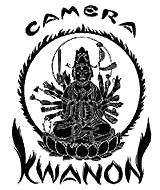 [1] 1934 Canon Inc logo (then known as Kwanon Camera). Copyright also expired.